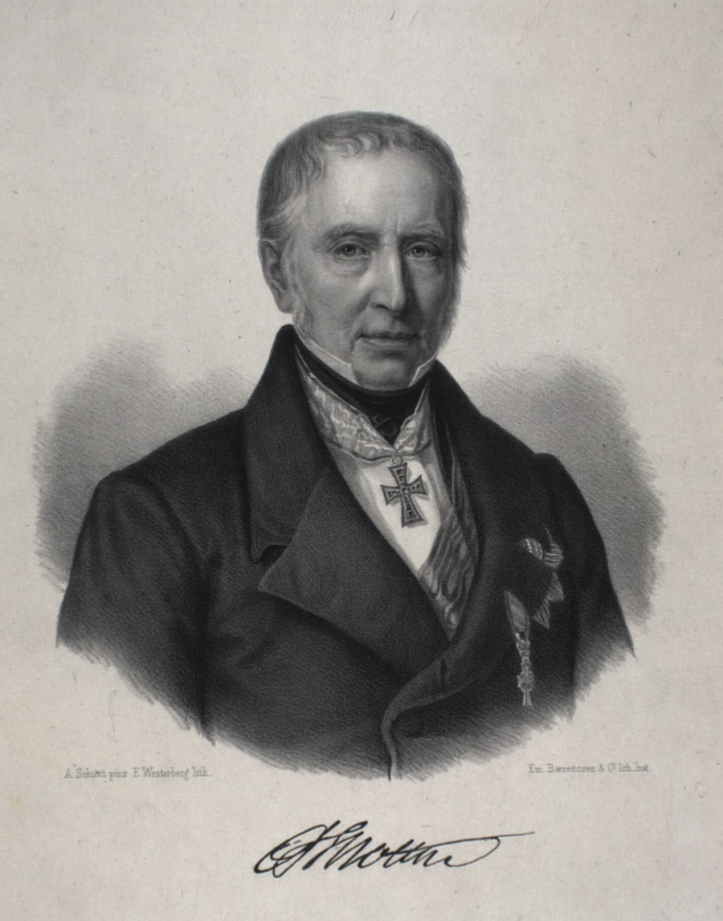 Count Otto Joachim Moltke (1770-1853). Danish Minister of State 1824-1842.